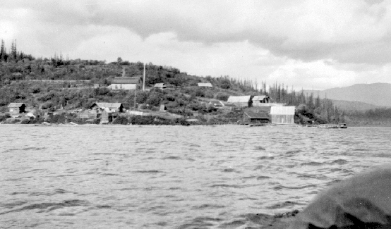 Photo taken 1926 Photograper Unknown BC Archives #D-07666 [1]